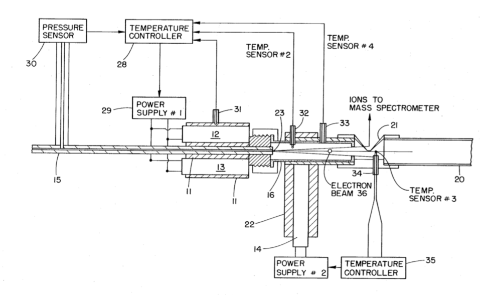 Diagram (cross sectional view) of second representation of thermospray vaporizer